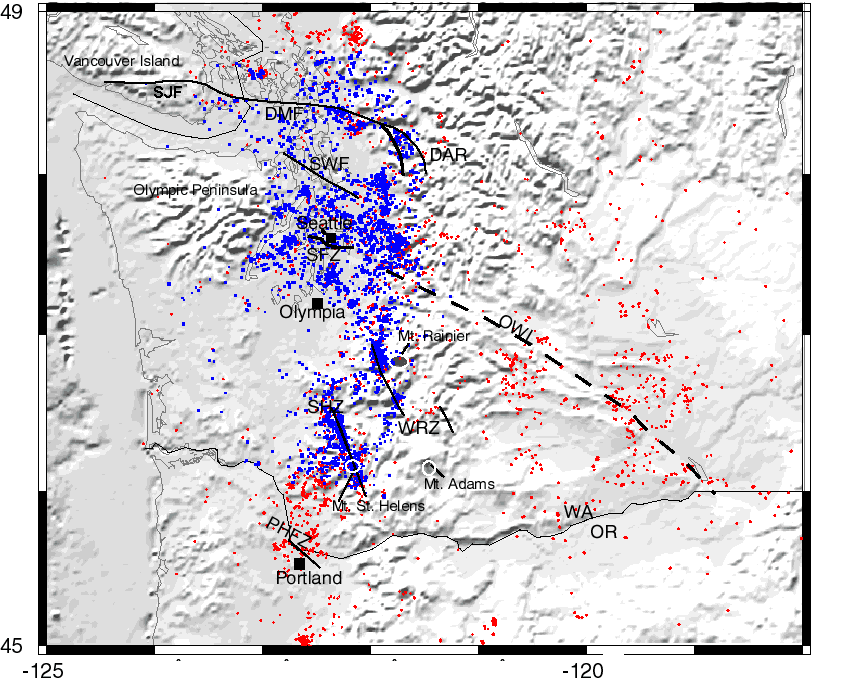 Distribution of earthquakes 10—20 km deep in Washington (state), showing concentration under Puget Sound, the Western Rainier Zone (WRZ), and Saint Helelns Zone. See for details. From U.S. Geological Service Open File Report 99-311.